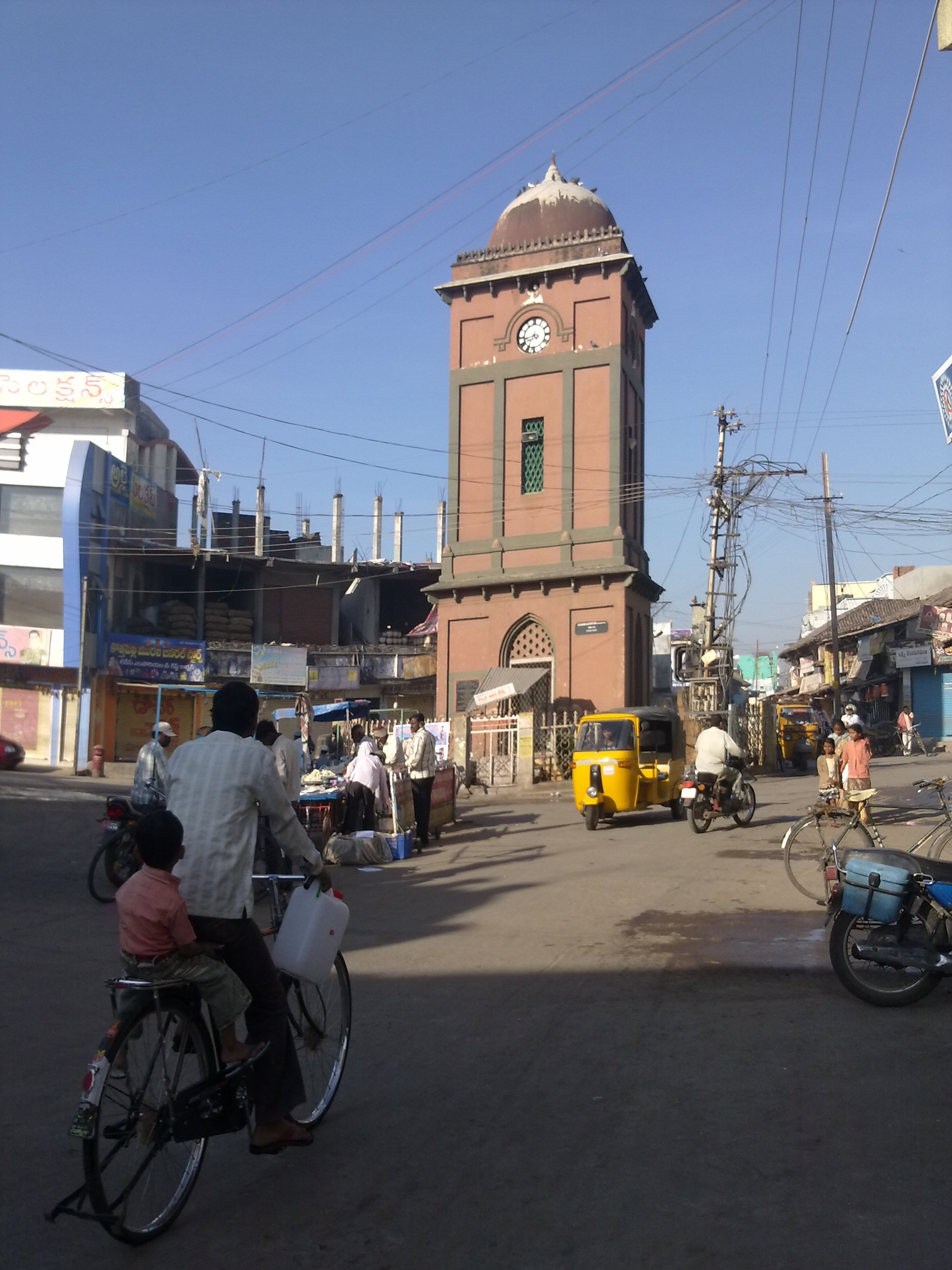 Clock Tower built by Juvvadi Dharmajalapati Rao on the occasion of Nizam Mir Usman Ali Khans completion of 25 years of Reigning Telangana State